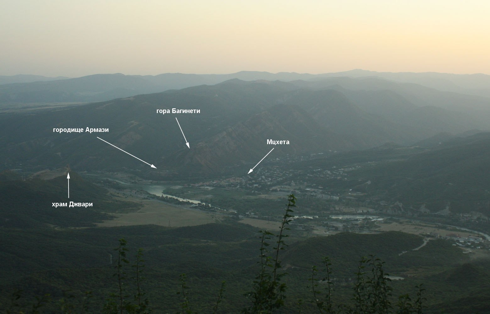 Mtskheta as seen from Zedazeni